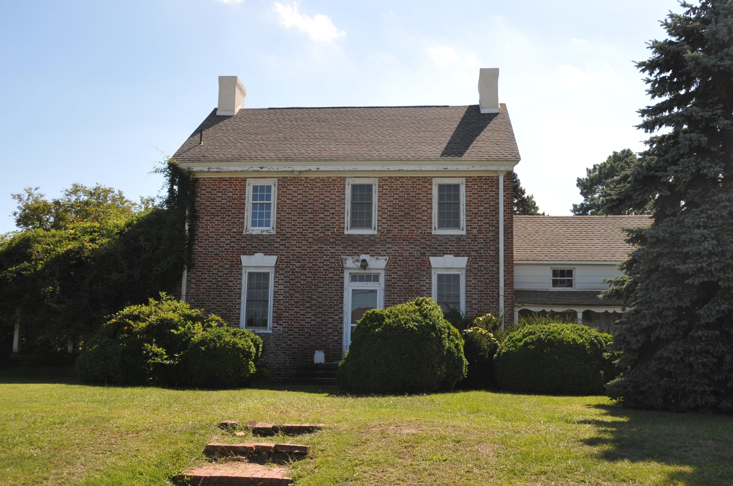 Great Geneva BUILT CIRCA 1748; LOCATED ON EAST LEBANON ROAD ACROSS FROM GREAT OAKS DEVELOPMENT